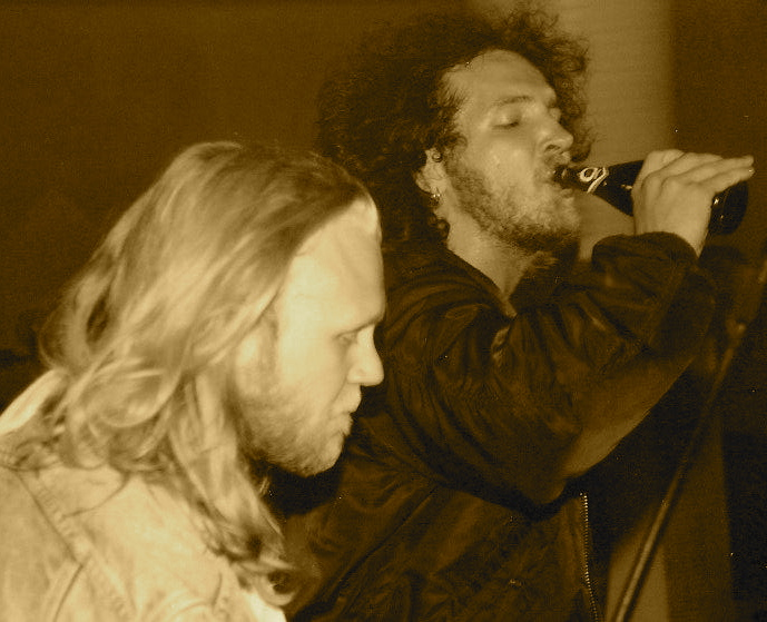 I hereby assert that I am the creator and/or sole owner of the exclusive copyright of [hela filnamnet/filnamnen så som de laddas upp på Commons]. The text of this web page is available for modification and reuse under the terms of the Creative Commons Attribute Share-Alike, version 3,0 and earlier. I acknowledge that I grant anyone the right to use the work in a commercial product, and to modify it according to their needs, as long as they abide by the terms of the license and any other applicable laws. I am aware that I always retain copyright of my work, and retain the right to be attributed in accordance with the license chosen. Modifications others make to the work will not be attributed to me. I am aware that the free license only concerns copyright, and I reserve the option to take action against anyone who uses this work in a libelous way, or in violation of personality rights, trademark restrictions, etc. I acknowledge that I cannot withdraw this agreement, and that the work may or may not be kept permanently on a Wikimedia project. Wille Crafoord